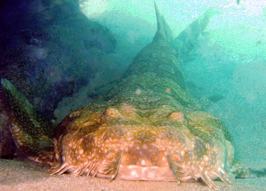 A Spotted Wobbegong (Orectolobus maculatus) waits in ambush beneath a rock ledge. Fairy Bower, Manly, NSW